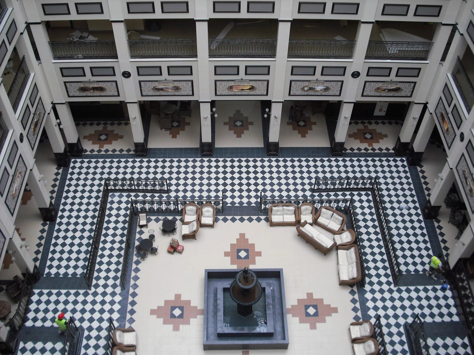 Hall of PortAventura Hotel Gold River in Tarragonès (Barcelona) decorated completely by Decoretro.